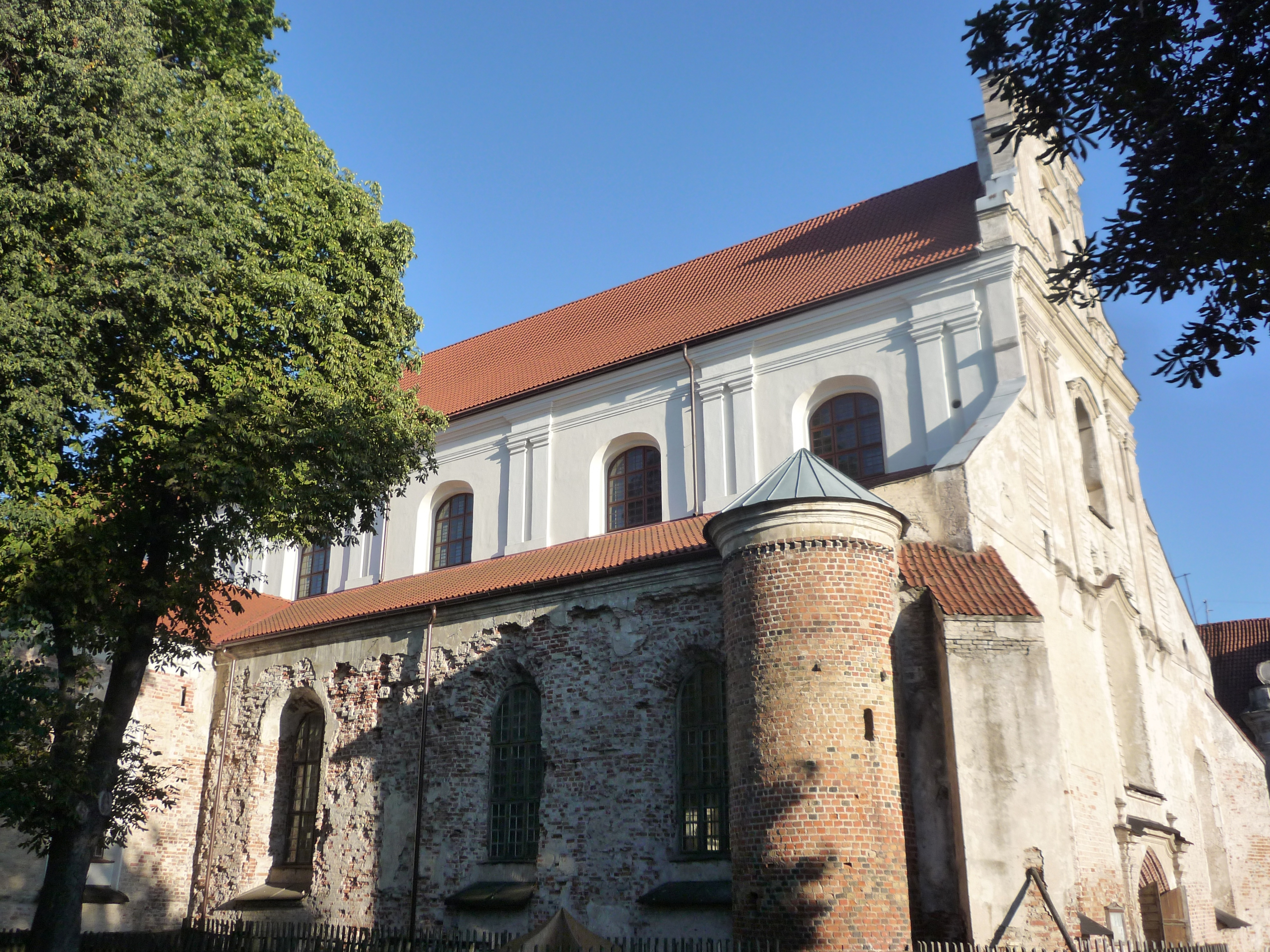 Franciscan (St. Mary's Accession) Church in Vilnius, Lithuania